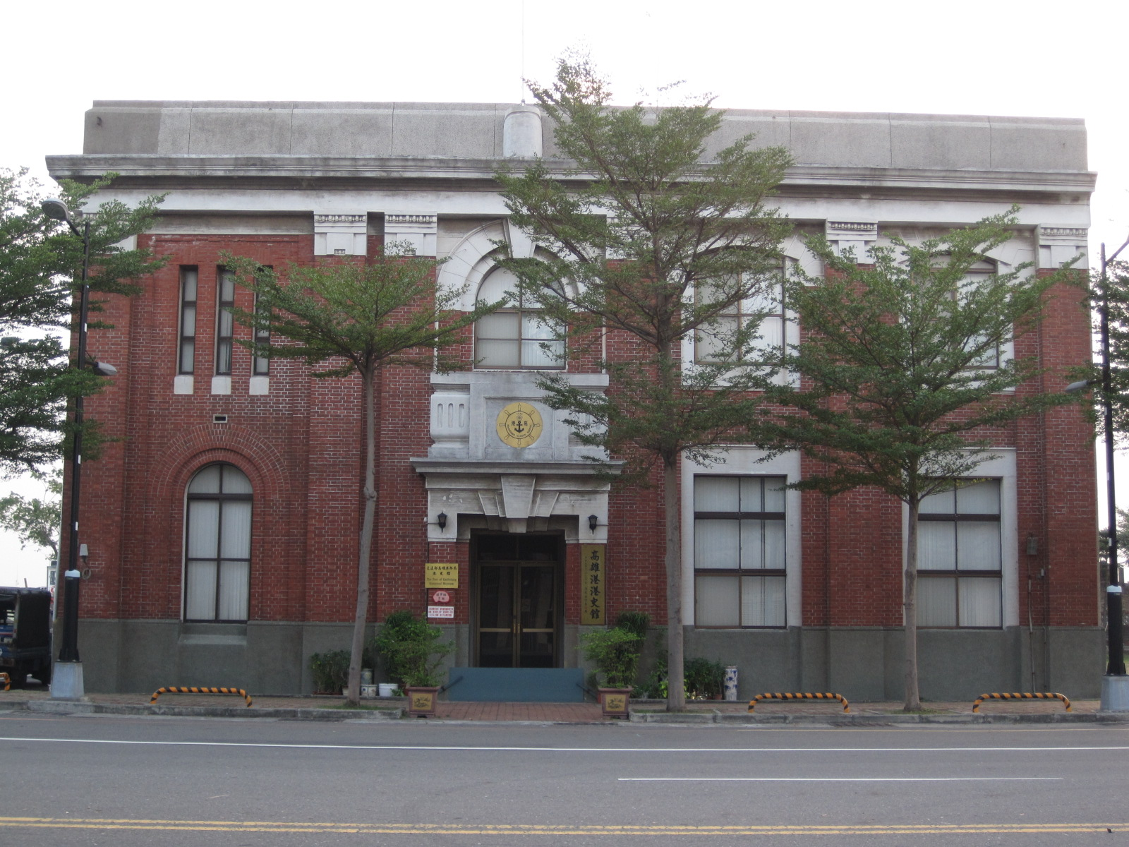 Kaohsiung Harbor Museum, Gushan District, Kaohsiung City, Taiwan